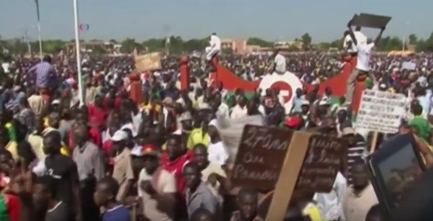 Protesters in Ouagadougou during the 2014 Burkinabé uprising